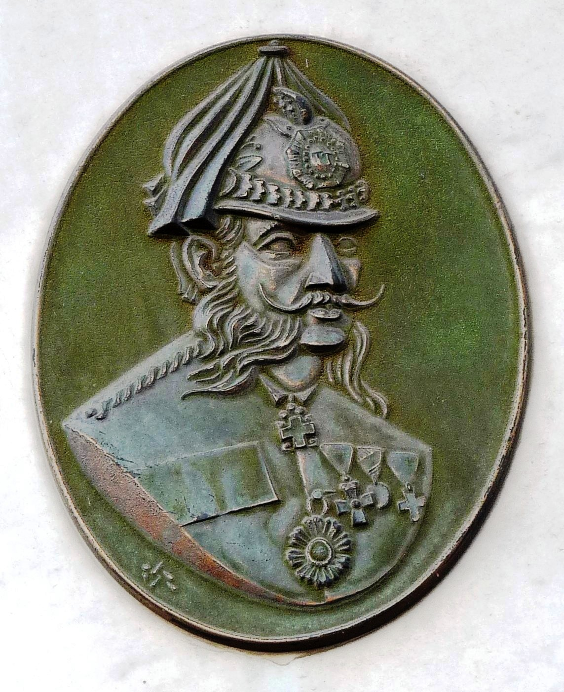 Detail (relief) of the commemorative plaque to Count Ödön Széchenyi (1839-1922) founder of the Hungarian fire service. It is affixed at the main entrance of the Metropolitan Fire Command in Budapest. The author of the bronze relief was László Szlávics, Jr. (Budapest, District VIII, Dologház Street Nr 1).